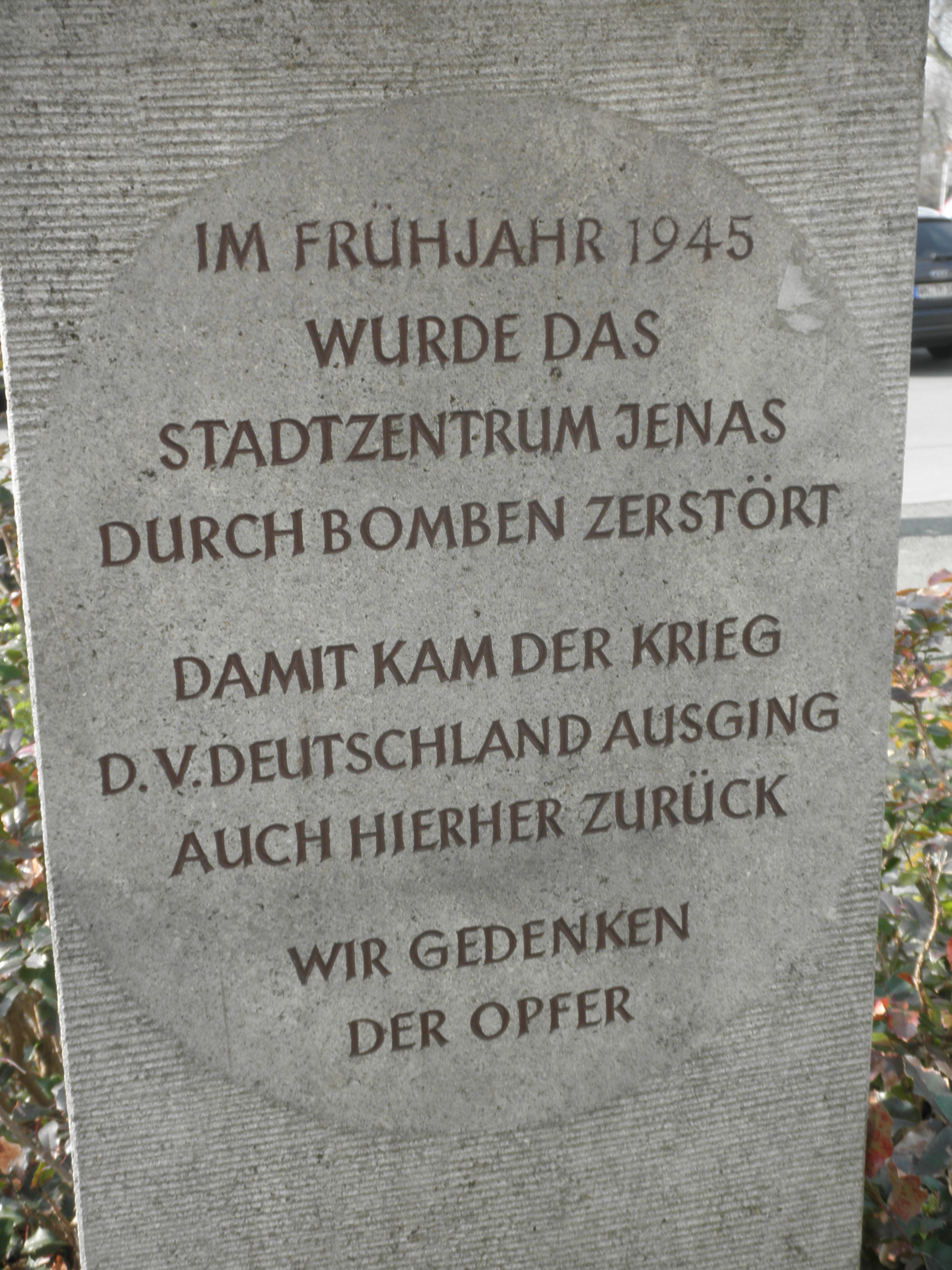 Memorial to Air Raids to Jena in 1945